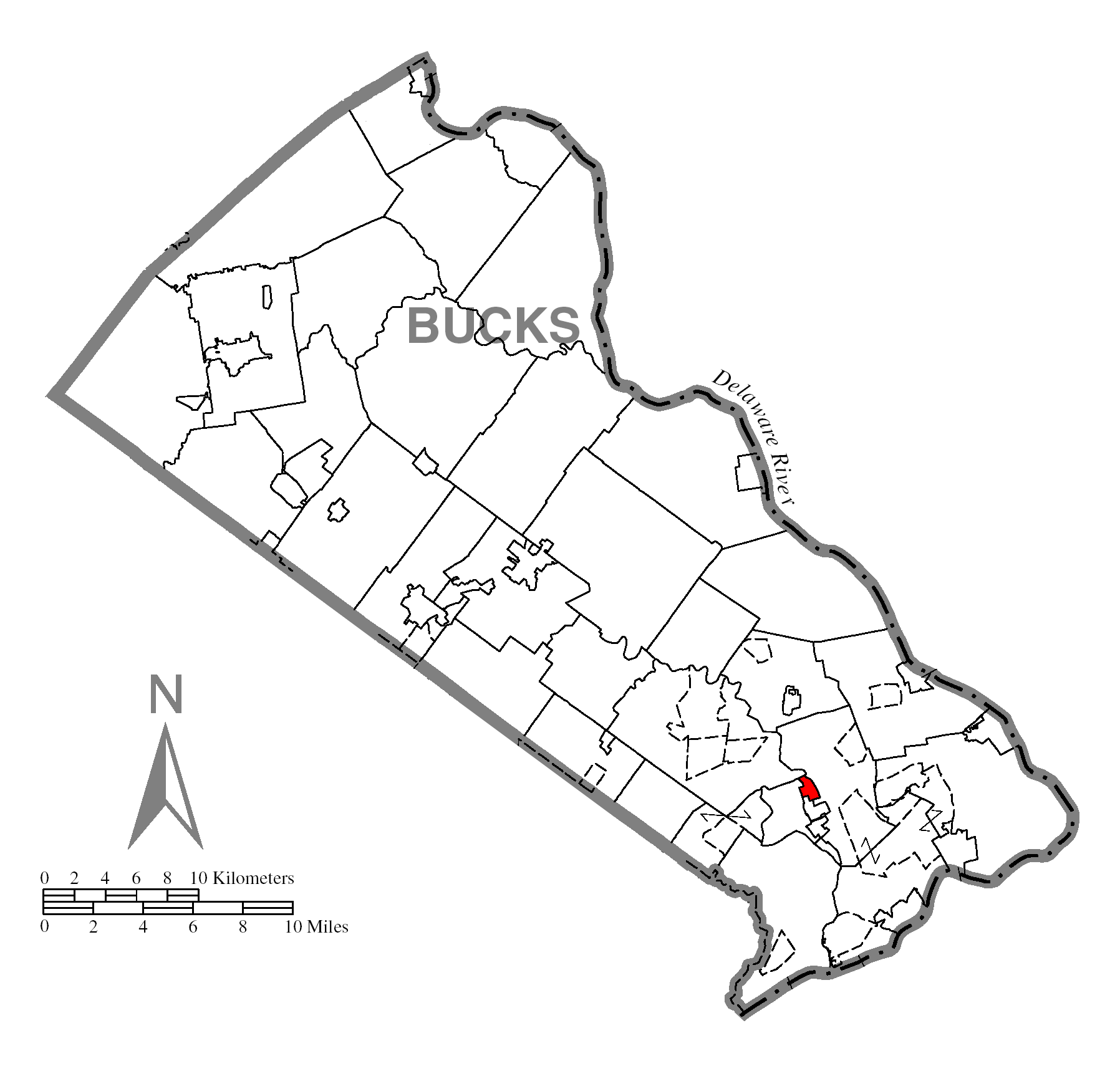 A map of Bucks County showing Langhorne, Pennsylvania (alternate) highlighted on the map.